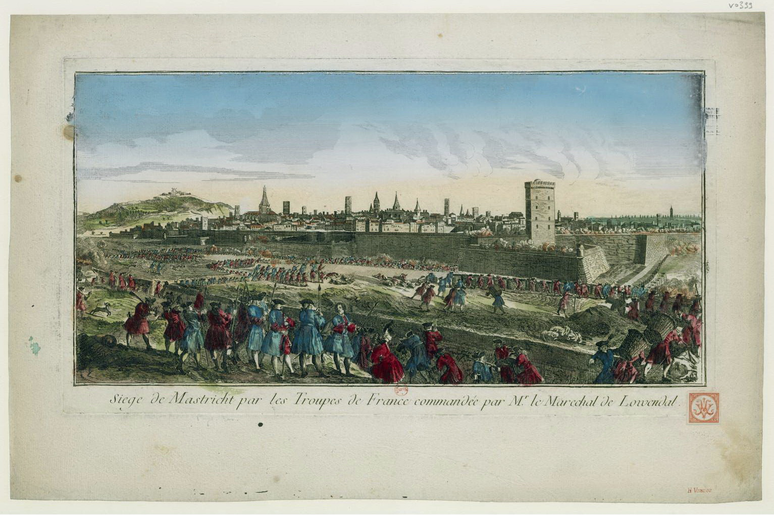 View of Maastricht, the Netherlands, showing the attaques of the army of Louis XV of France on the city in 1748 during the War of the Austrian Succession. Print in the collection of the Bibliothèque nationale de France in Paris.